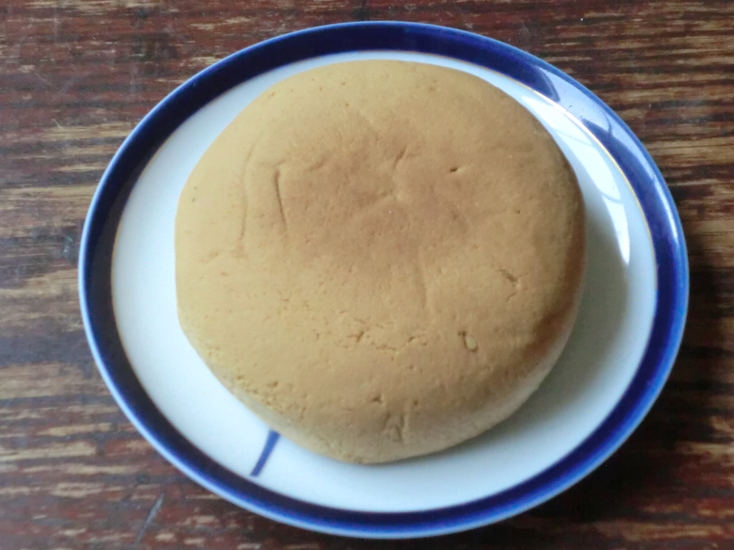 Okinawa's local sweet "Konpen" of Nanto Seika Ltd at Naha,Okinawa.Japan.